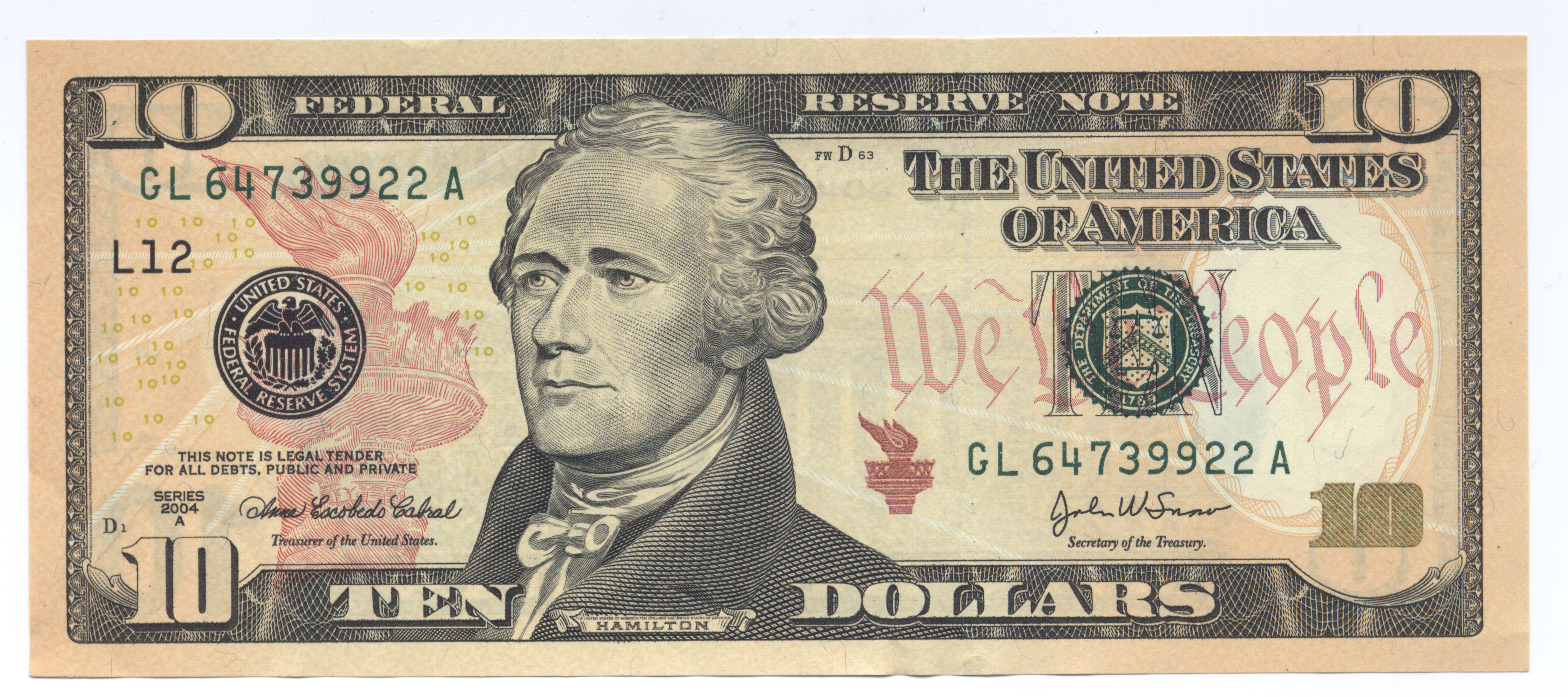 The US 10 bill (front) Series 2004A. The series 2004 $10 bill incorporates new security features such as orange, yellow and red background colors.